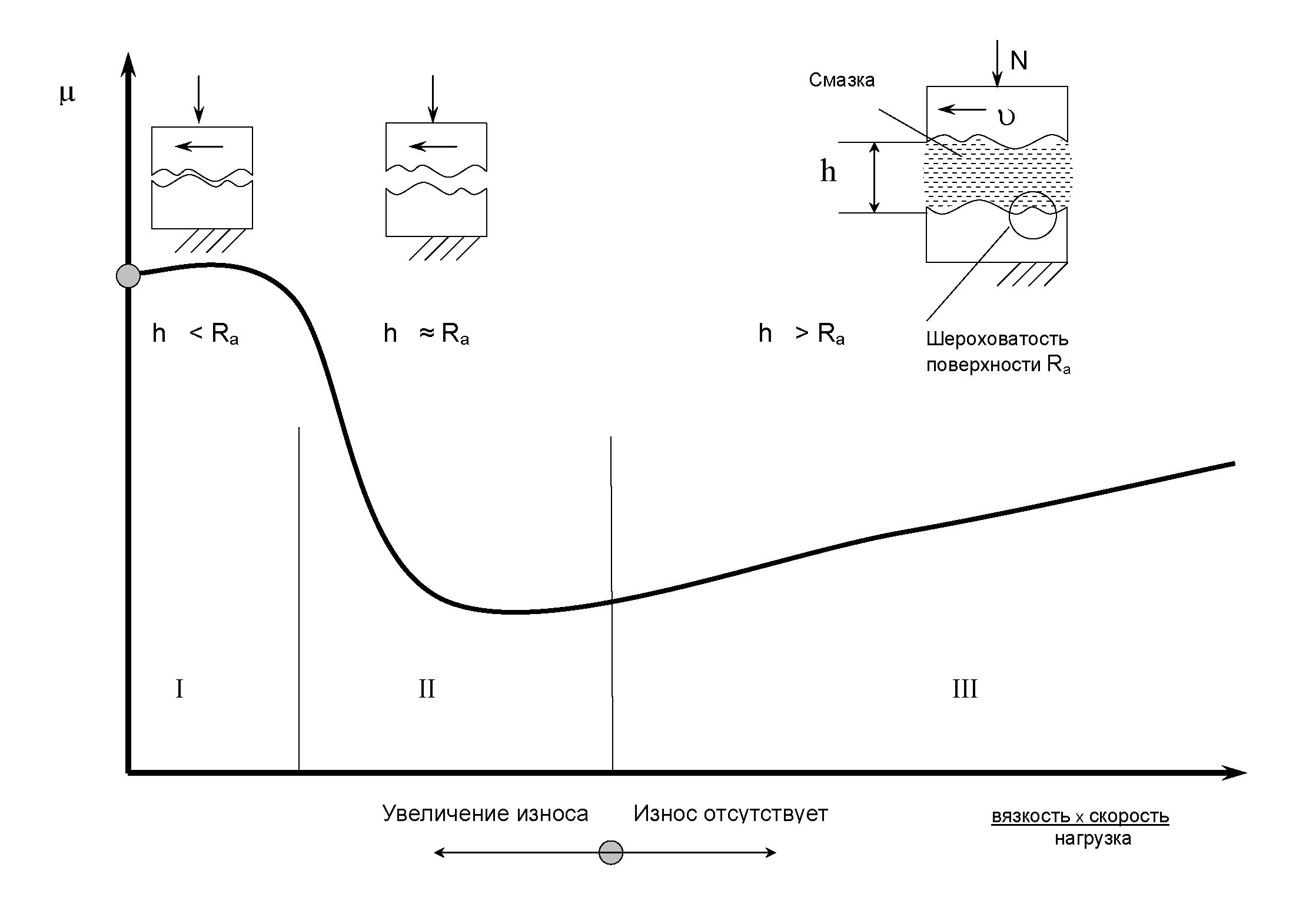 Stribeck diagram